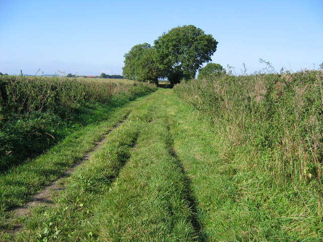 SE of Bainton, East Riding of Yorkshire, England.The track heads from the east edge of the grid square to the B1248 in the adjacent square west and is part of the Minster Way.